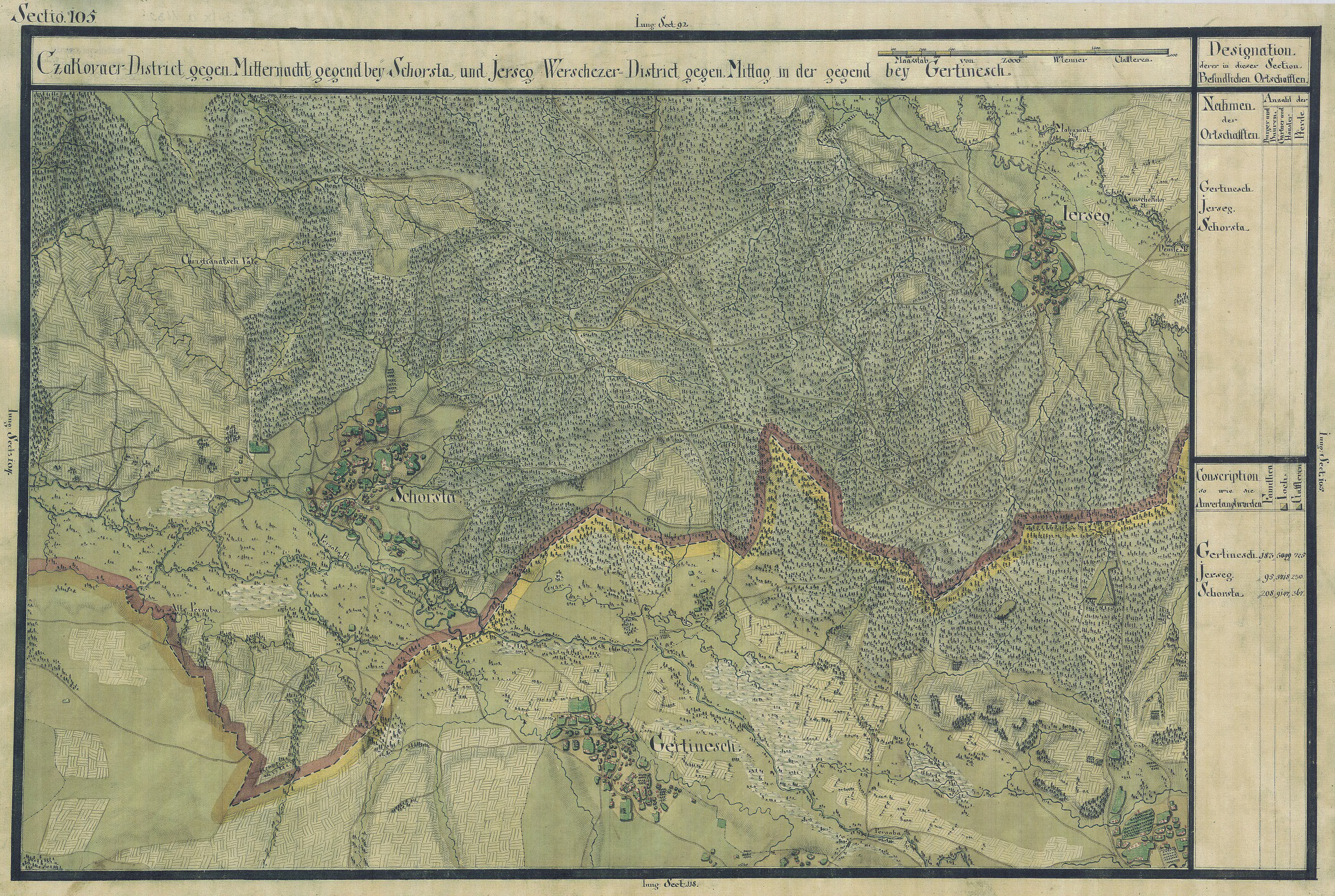 The Banat region in the cadastral maps: Josephinische Landesaufnahme, 1769-72. Josephinische Landaufnahme pg105